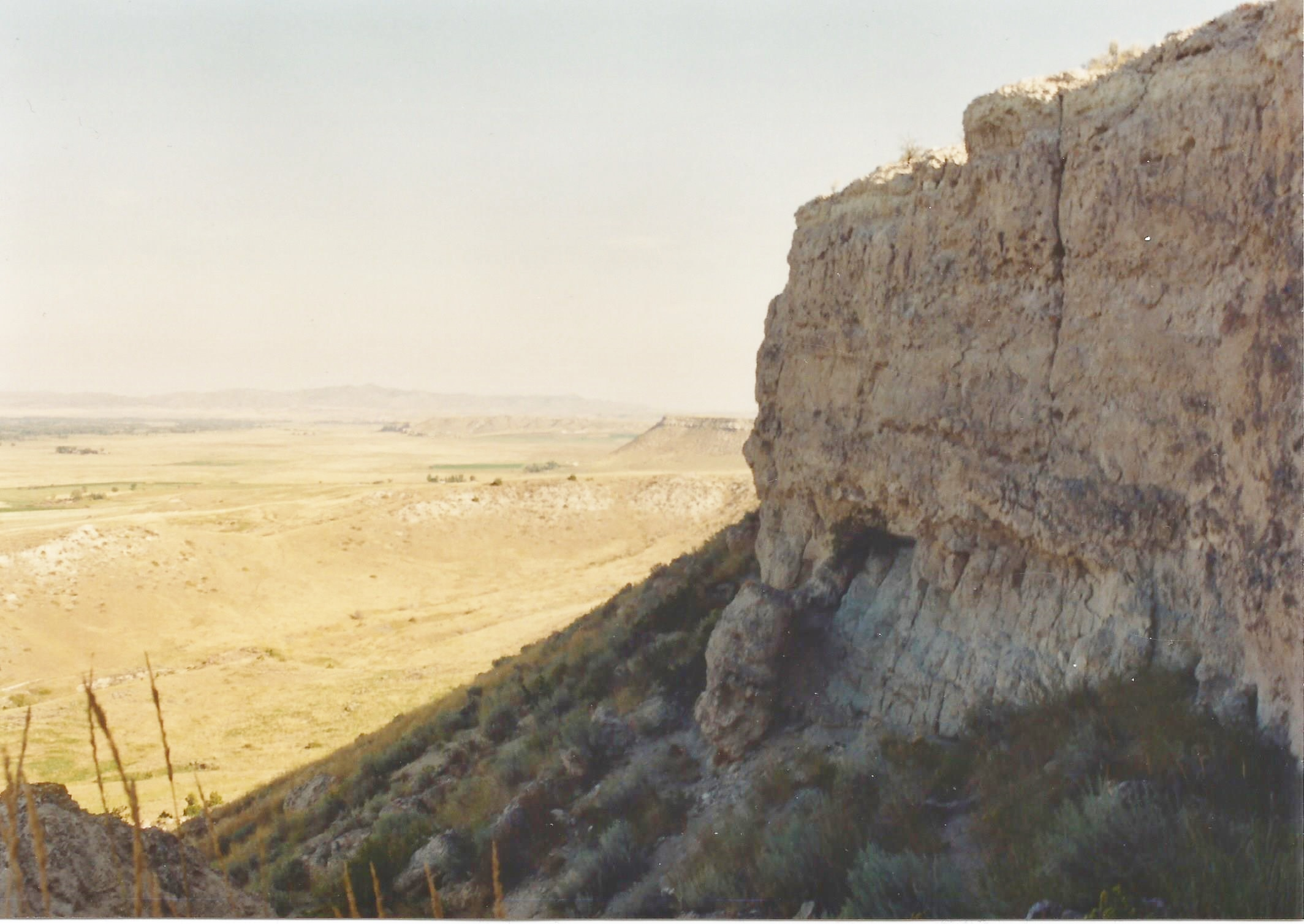 The Madison Buffalo Jump, Logan, Montana.